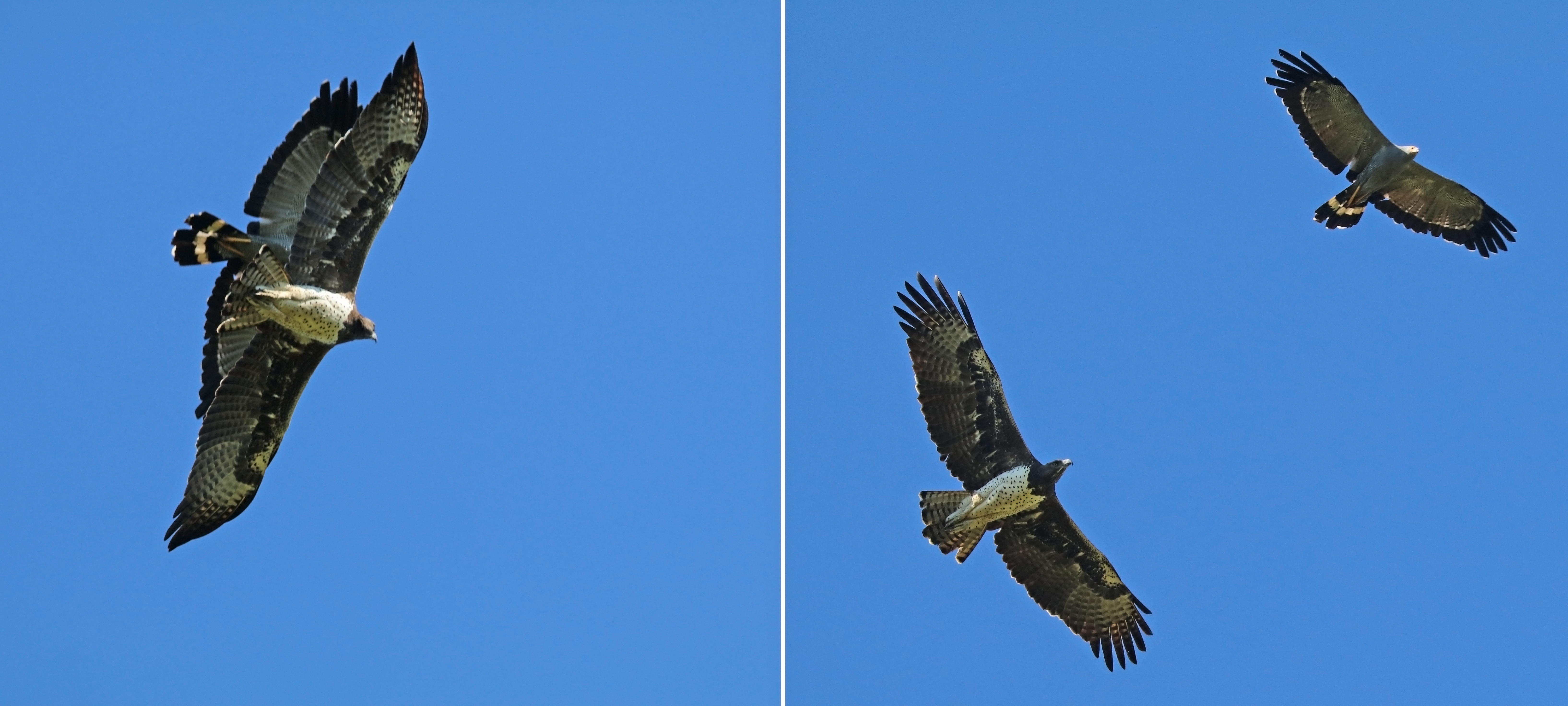 Martial eagle (Polemaetus bellicosus) in flight with African harrier-hawk (Polyboroides typus), Matetsi Safari Area, Zimbabwe. This is pure speculation, but it is known that Polyboroides typus sometimes lasy eggs in the nest of Polemaetus bellicosus. Might it be possible that this Polyboroides typus was raised by Polemaetus bellicosus'